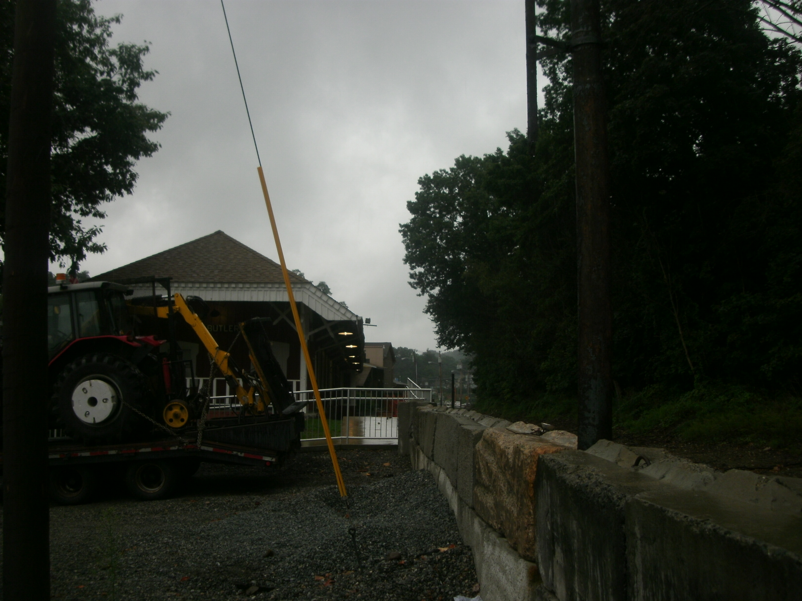 The Butler station for New York, Susquehanna and Western Railroad in August 2011.